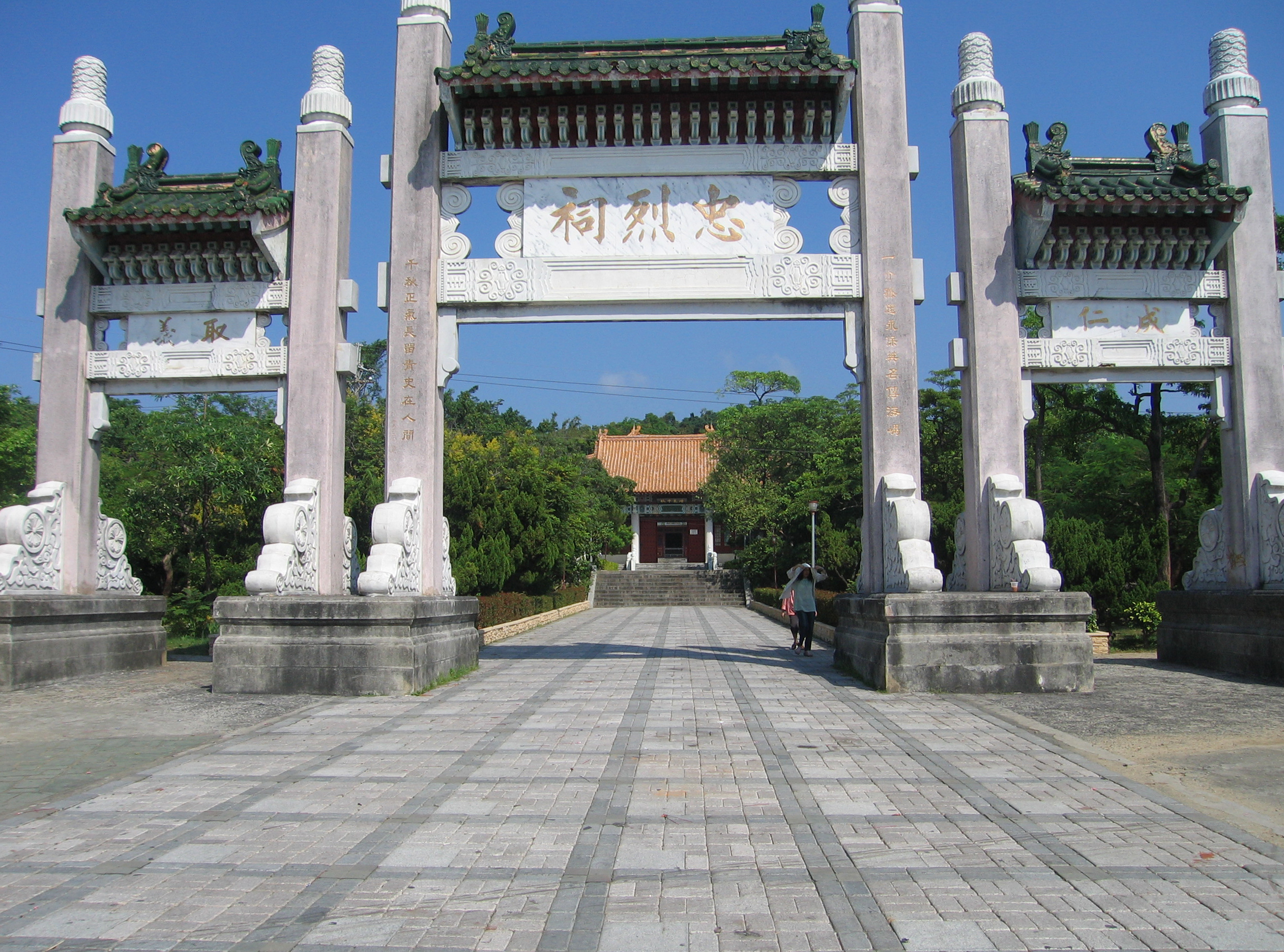 The paifang of Kaohsiung Martyrs' Shrine.